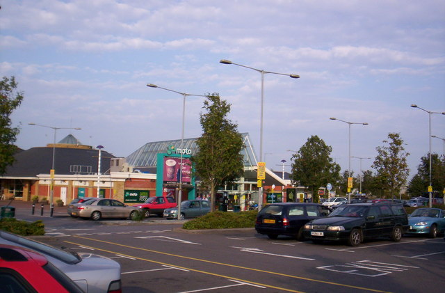 Reading East services on the M4 motorway in England. For more information, see Wikipedia article Reading services.